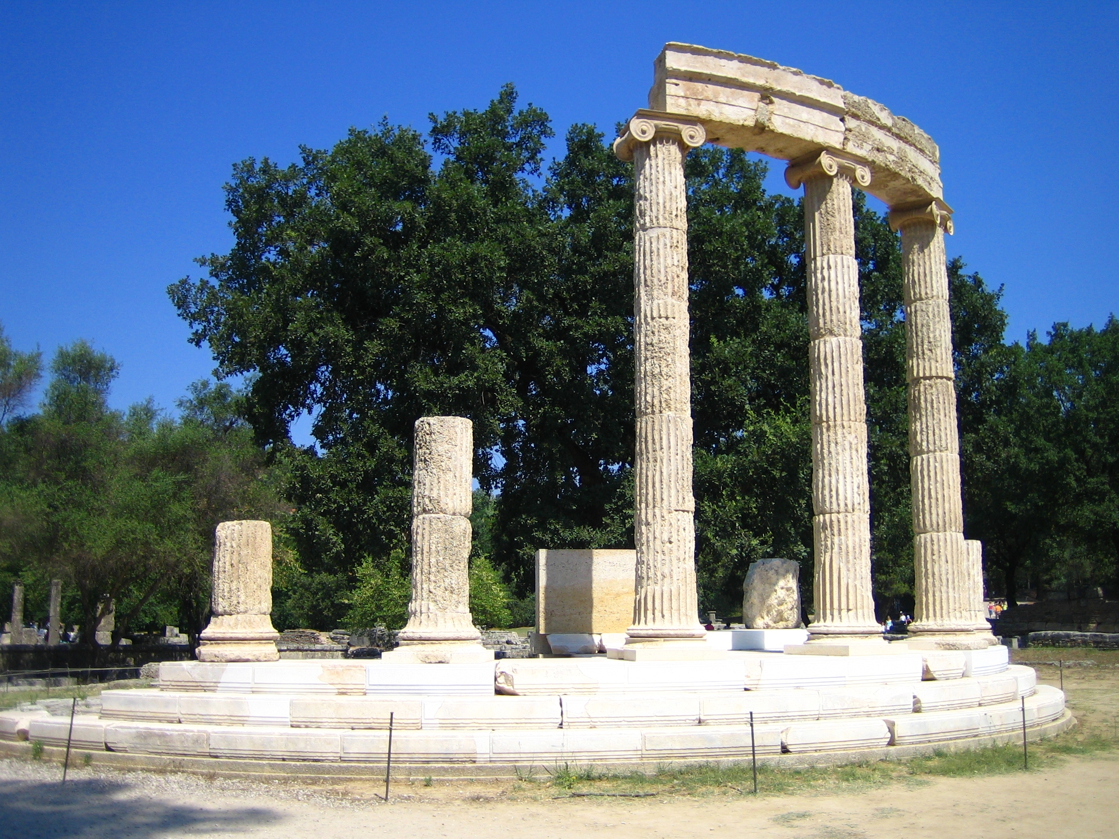 Olympia Philip II of Macedon Temple